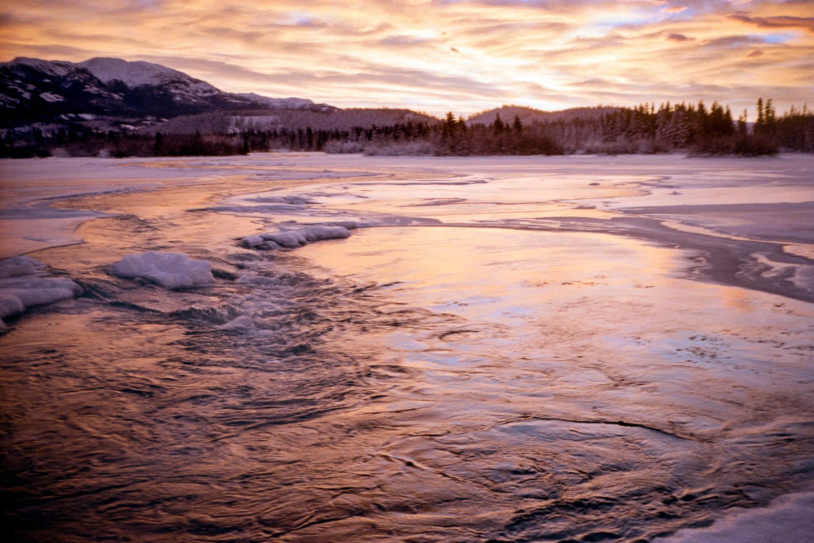 Yukon River, Whitehorse